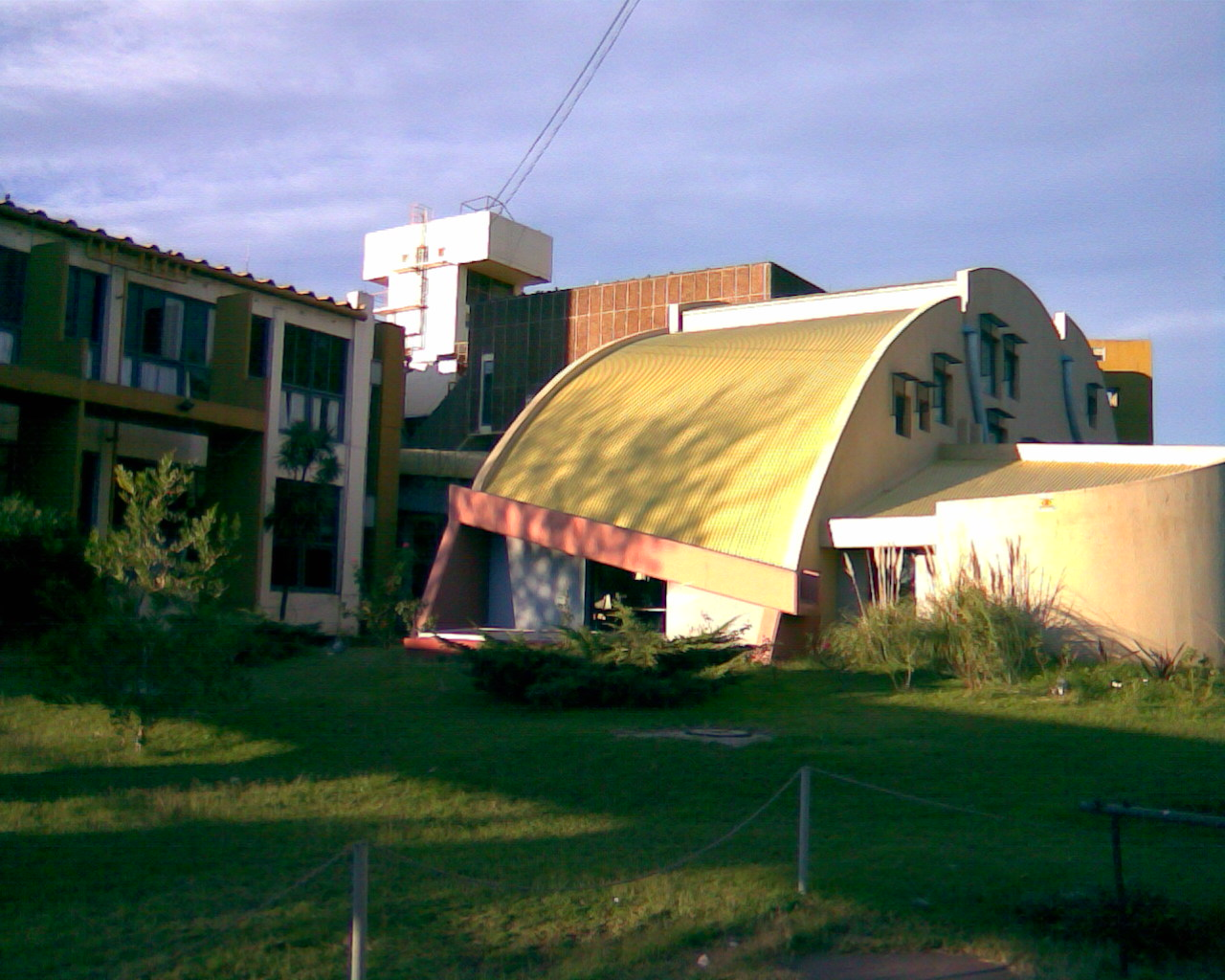 Edificio de la Cámara de Diputados de La Pampa, Biblioteca.